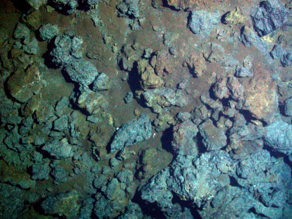 Hydrothermal vent fluids contain much dissolved chemical material that flows out of the vent, rapidly cools and reacts with the surrounding seawater, and then precipitates out minerals that form sediments on the surrounding seafloor.